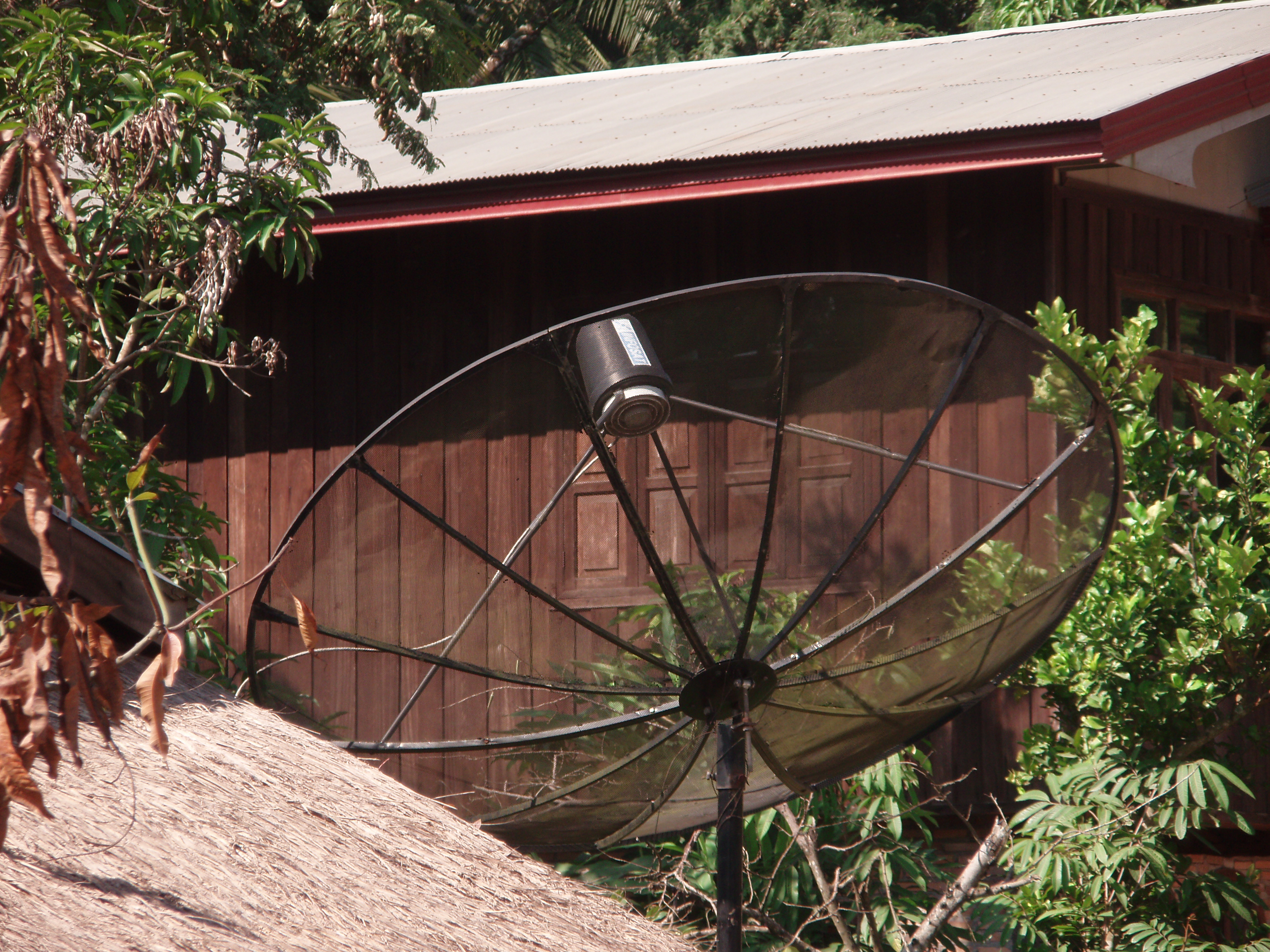 Satelite dish in a small village in Xaignabouri province in northern Laos